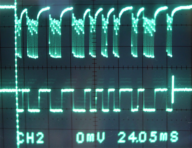 Carrier-modulated RC-5 infrared remote control output at IR-LED terminals and resulting demodulated manchester output of a receiver-ic. The whole transmission has a duration of 24.8 milliseconds (address=20, command=13, toggle=0).